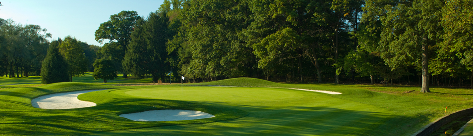 Picture of Golf Course